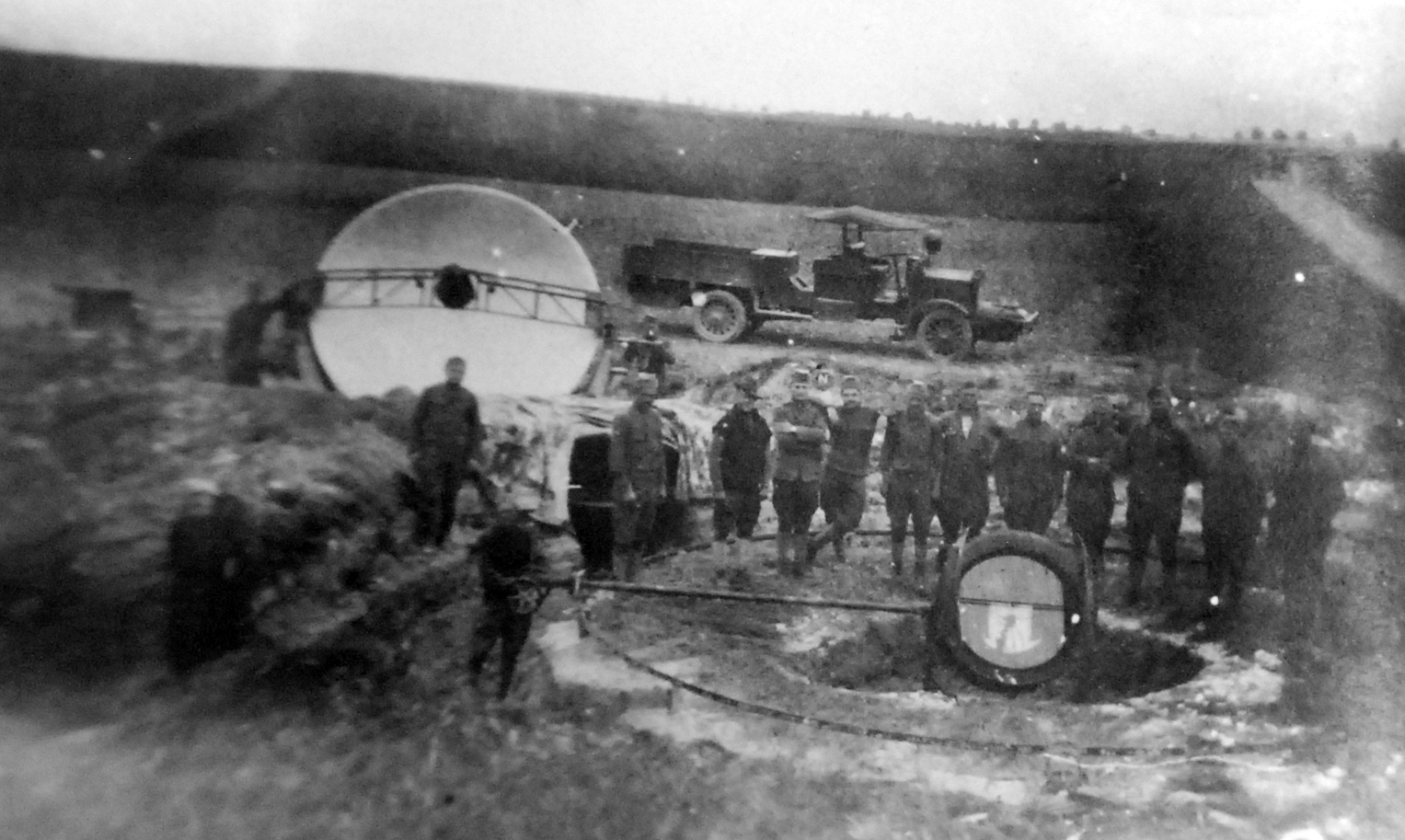 Lot-11550-4: WWI: French Activities. Amiens. American searchlight crew and equipment in action on Somme front. 36” searchlight of high power showing arrangement of digging in for protection, also camouflaged earth works, plotting room and parabaloid sounding device for locating approaching planes by sound. Large Riker truck with generator built in front. Position near Gleesy. Morris’ War Photographs. Courtesy of the Library of Congress. (2017/02/03).